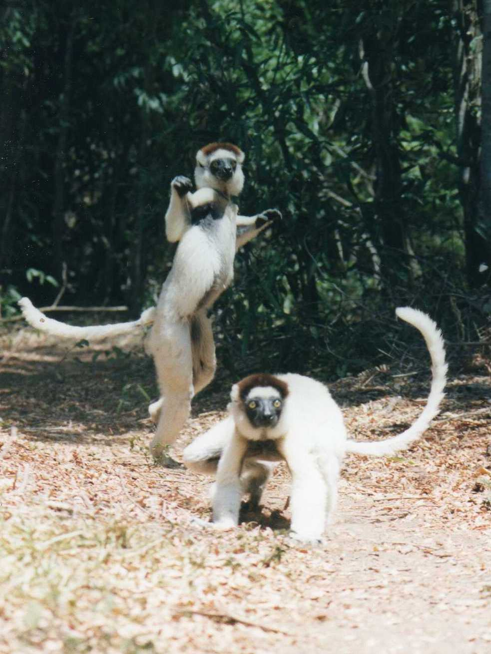 Verreaux's Sifakas on the ground in Madagascar.